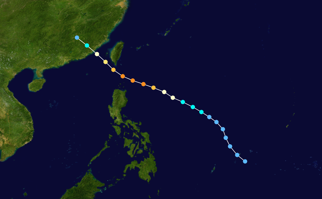 Typhoon Wayne 1983 track. Uses the color scheme from the Saffir-Simpson Hurricane Scale.